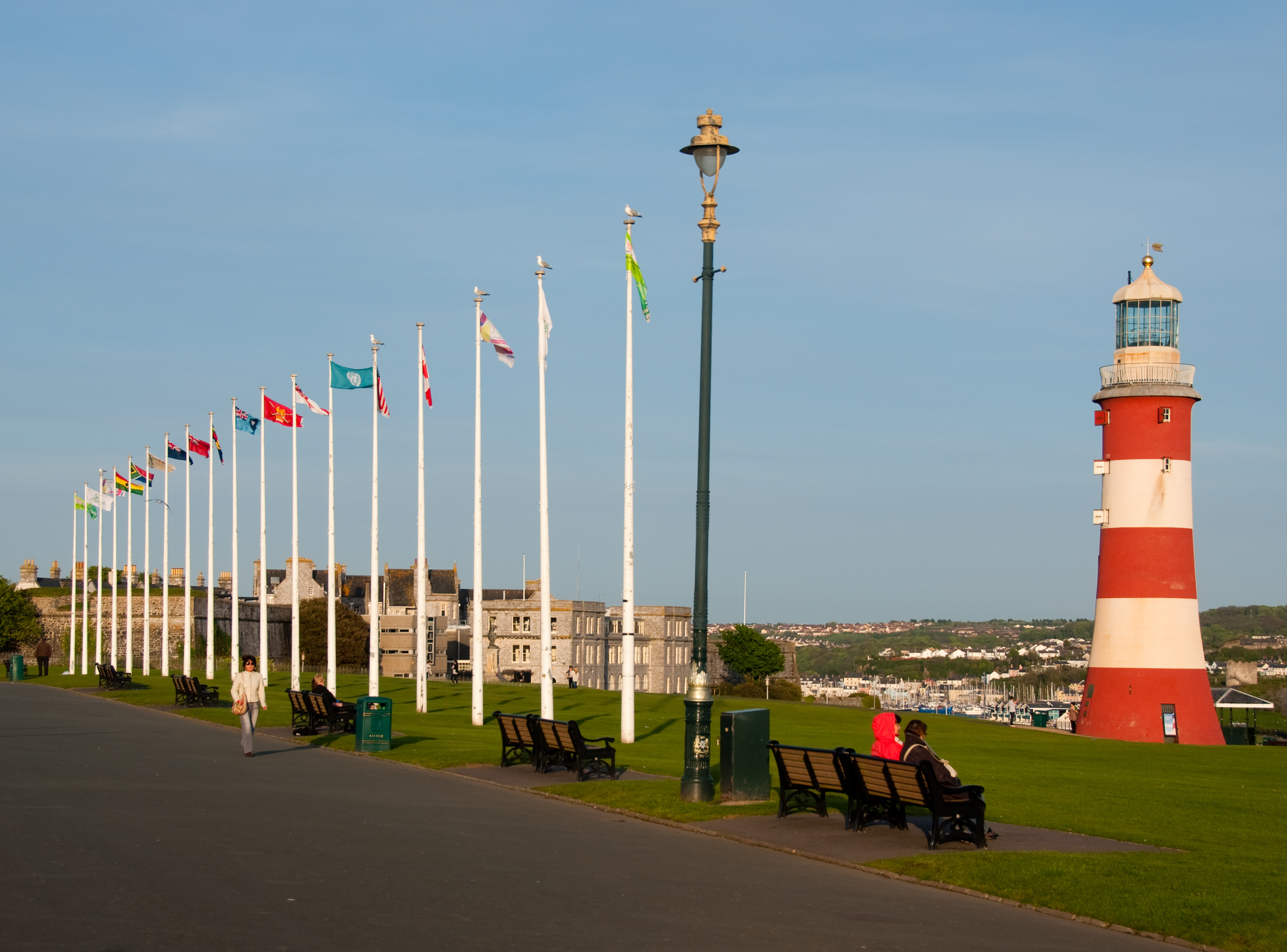 Smeaton's Tower and the flags on the Promenade at Plymouth Hoe.